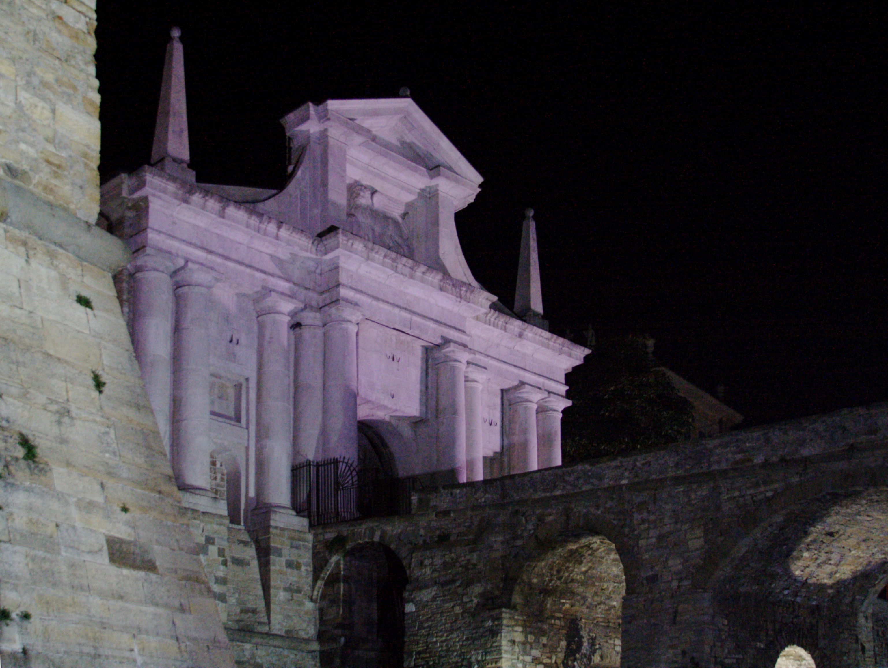 Bergamo by Night, Porta San Giacomo